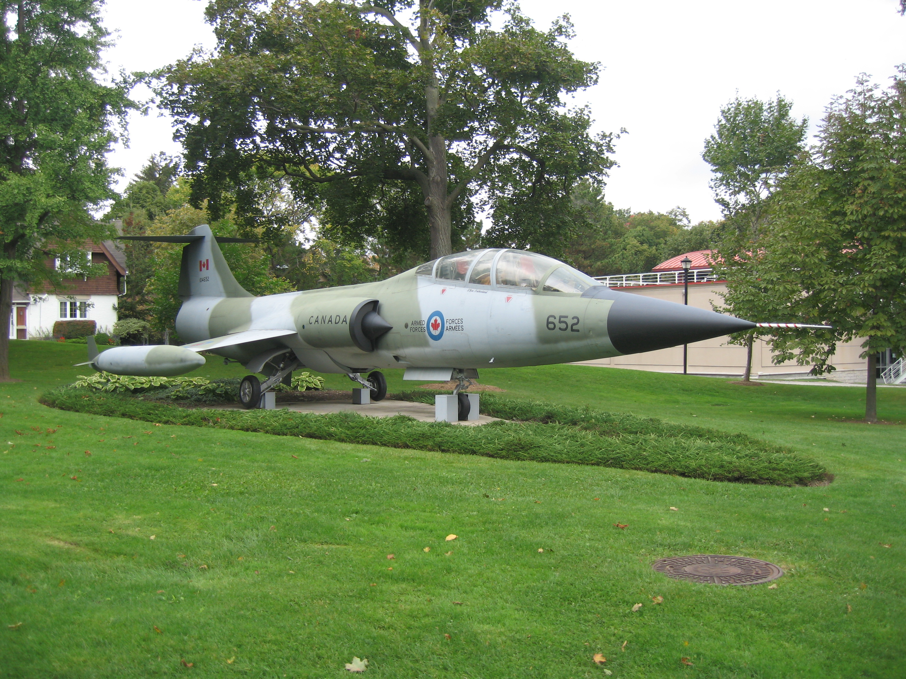 Canadair CF-104 Starfighter at the Canadian Forces College, 215 Yonge Boulevard, Toronto, Ontario, Canada. This aircraft flew with the Aerospace Engineering Test Establishment during its entire service life until retired in 1984.